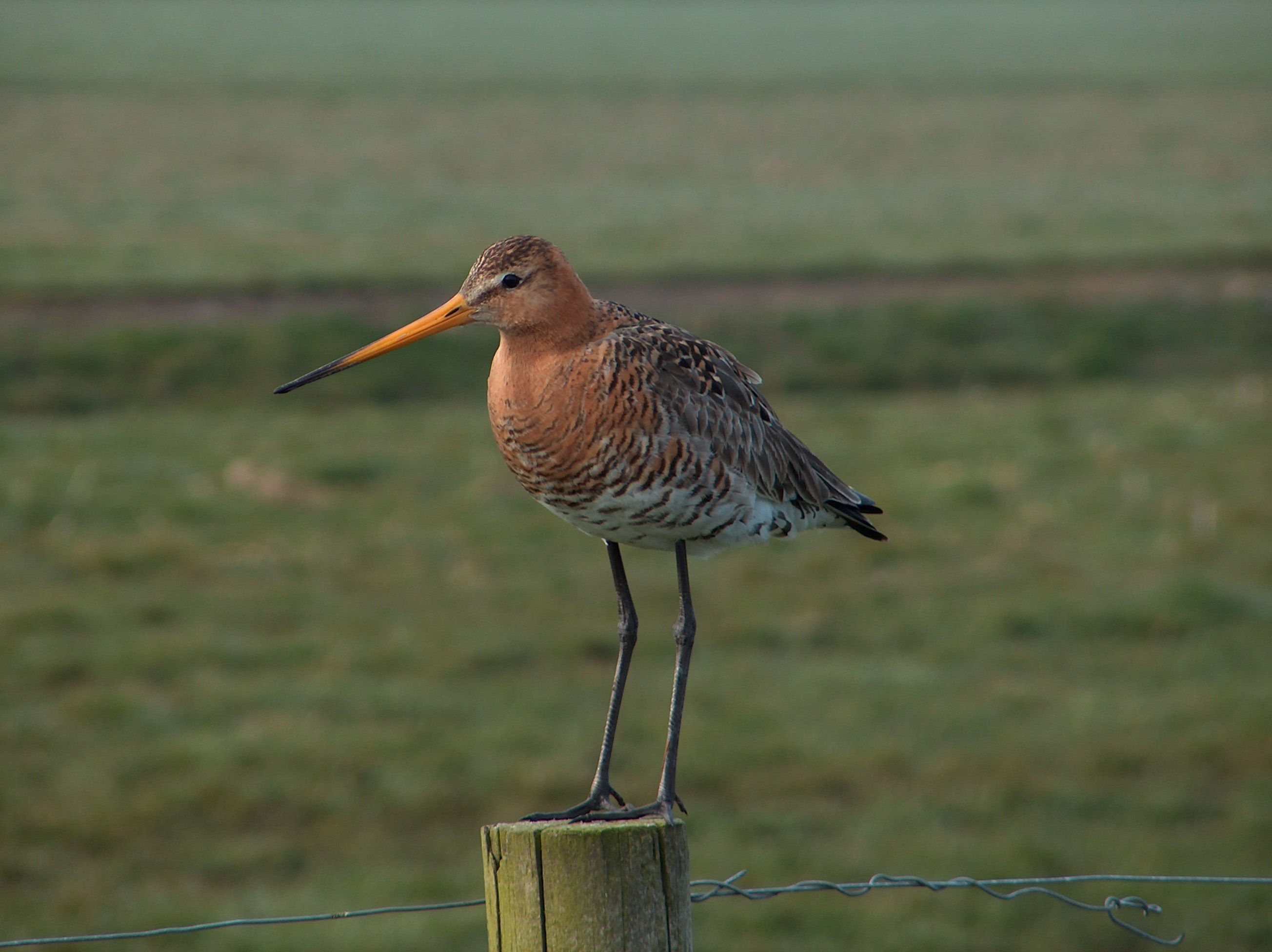 Black-tailed godwit on a pole